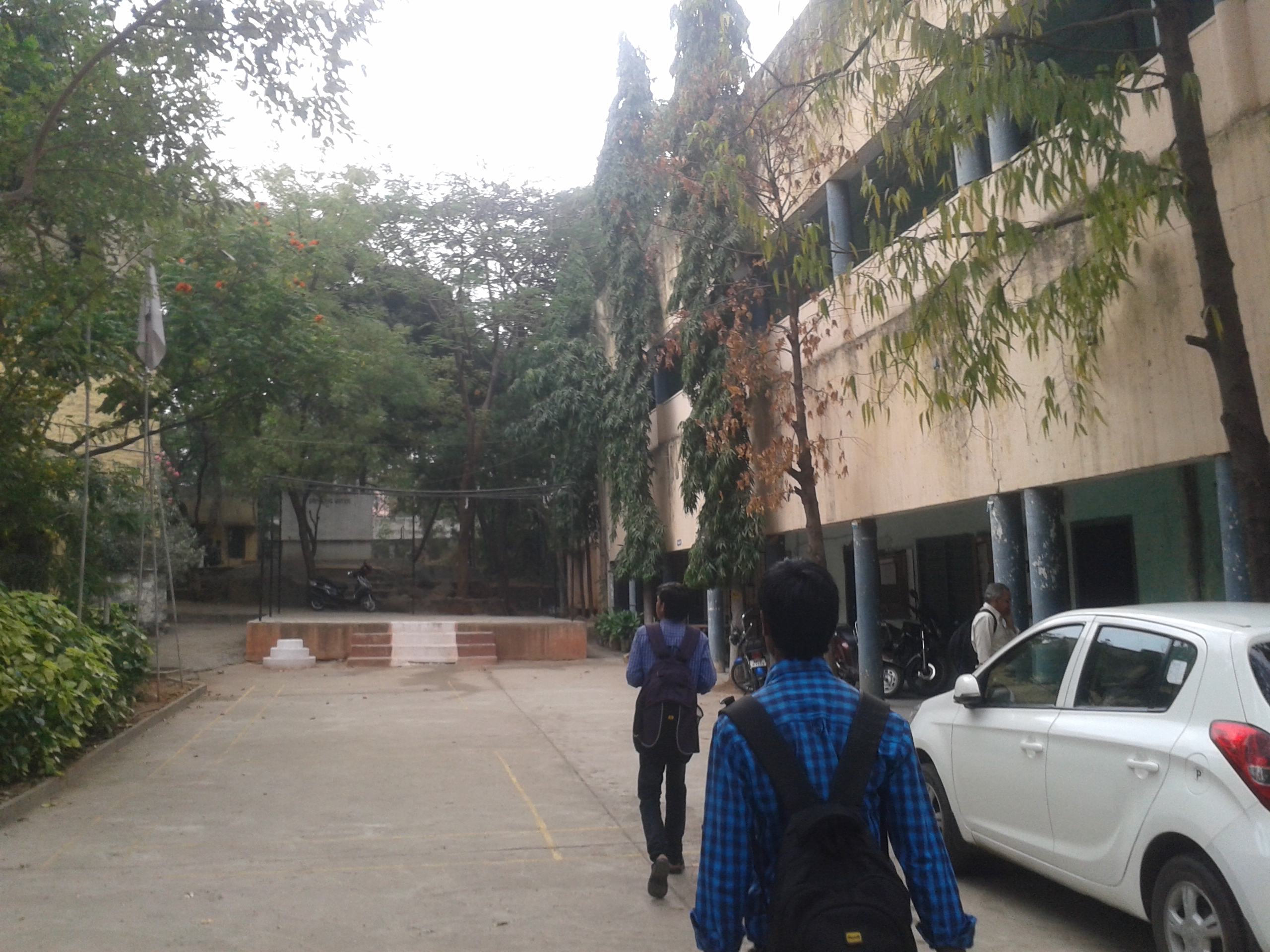 Campus of the Government Degree College, Khairthabad, Hyderabad